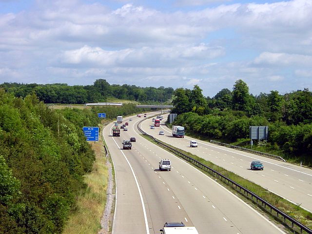 M20 near Hollingbourne. The Channel Tunnel Rail Link passes through a short cut and cover tunnel just outside the village emerging about 500m before the footbridge which may be seen in this picture.